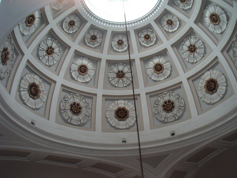 Interior of the dome, Pittville Pump Room (c. 1825)